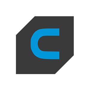 ultimaker cura